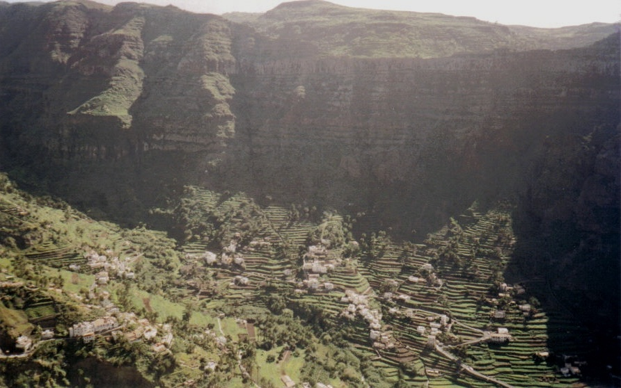 View of Valle Gran Rey